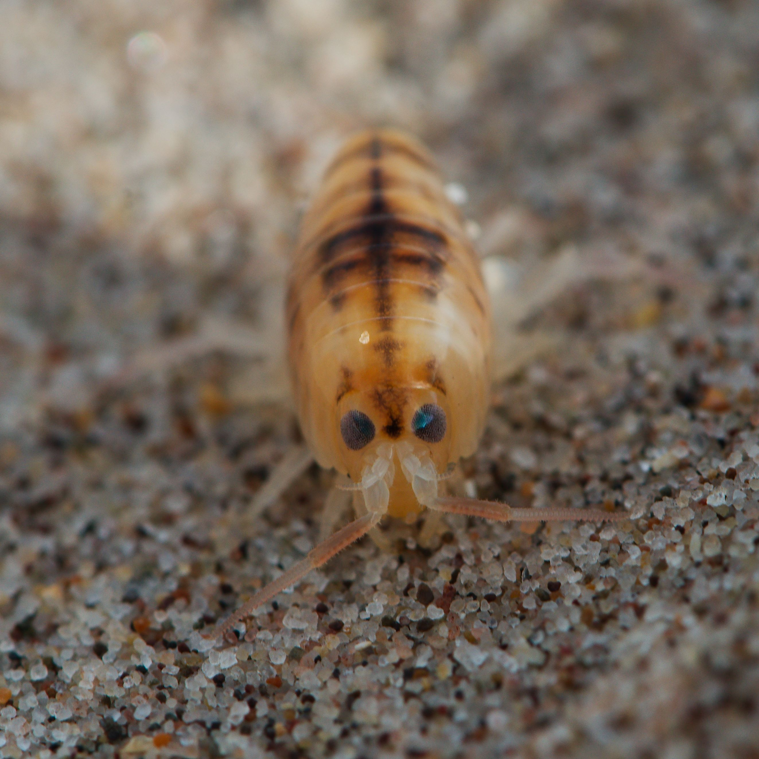 I'd be very grateful if someone could suggest what beastie this guy is. We spotted it on the beach in Tyninghame, East Lothian. The arthropod (actually an amphipod) was about 0.5cm long and very quick to bury itself into the sand. Lord V suggested the wee beastie is a sandhopper.